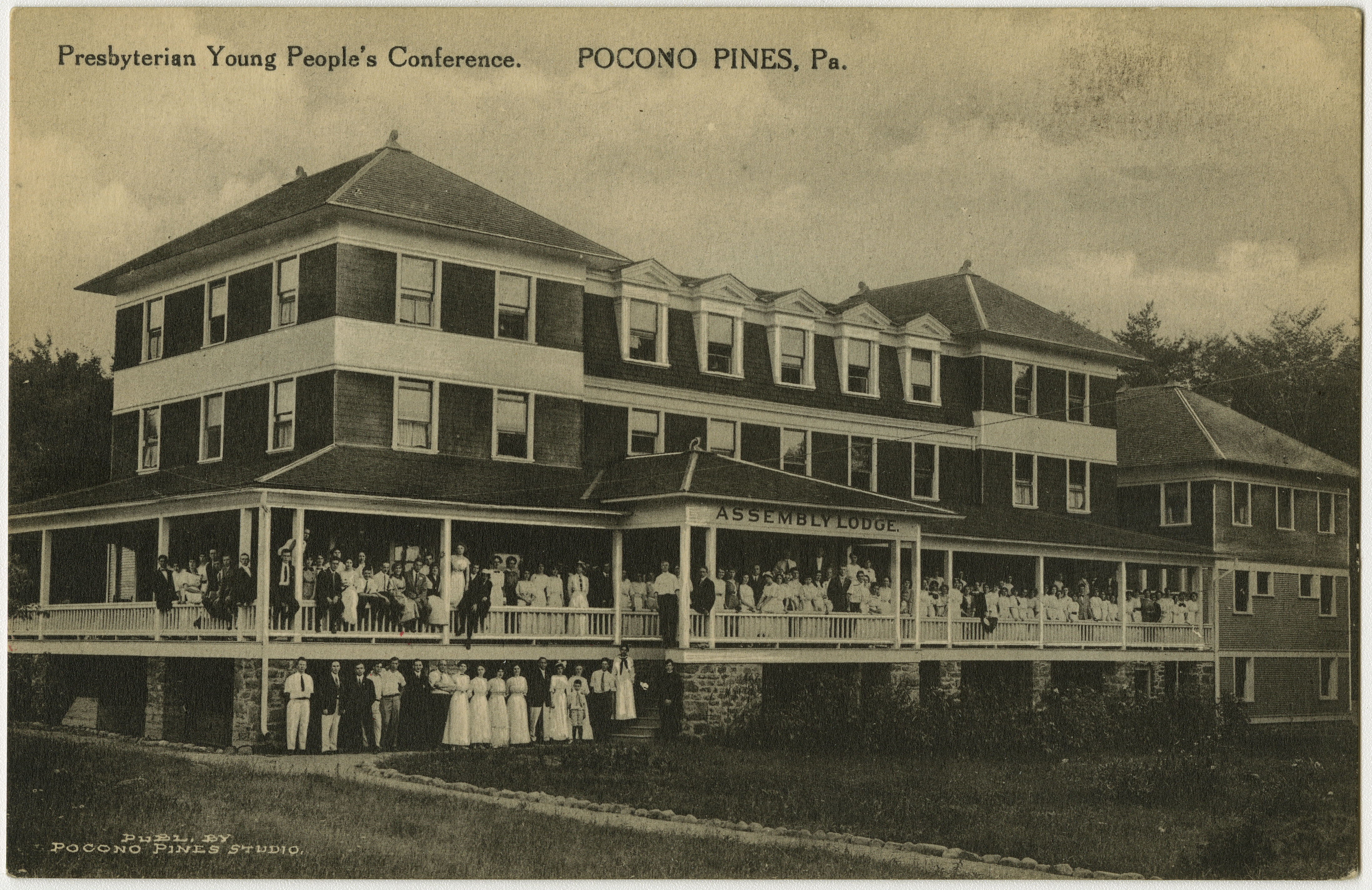 Presbyterian church meeting for youth in Pocono Pines, Pennsylvania from a pre-1923 postcard From RG 428, Postcard Collection, Presbyterian Historical Society, Philadelphia, Pennsylvania.